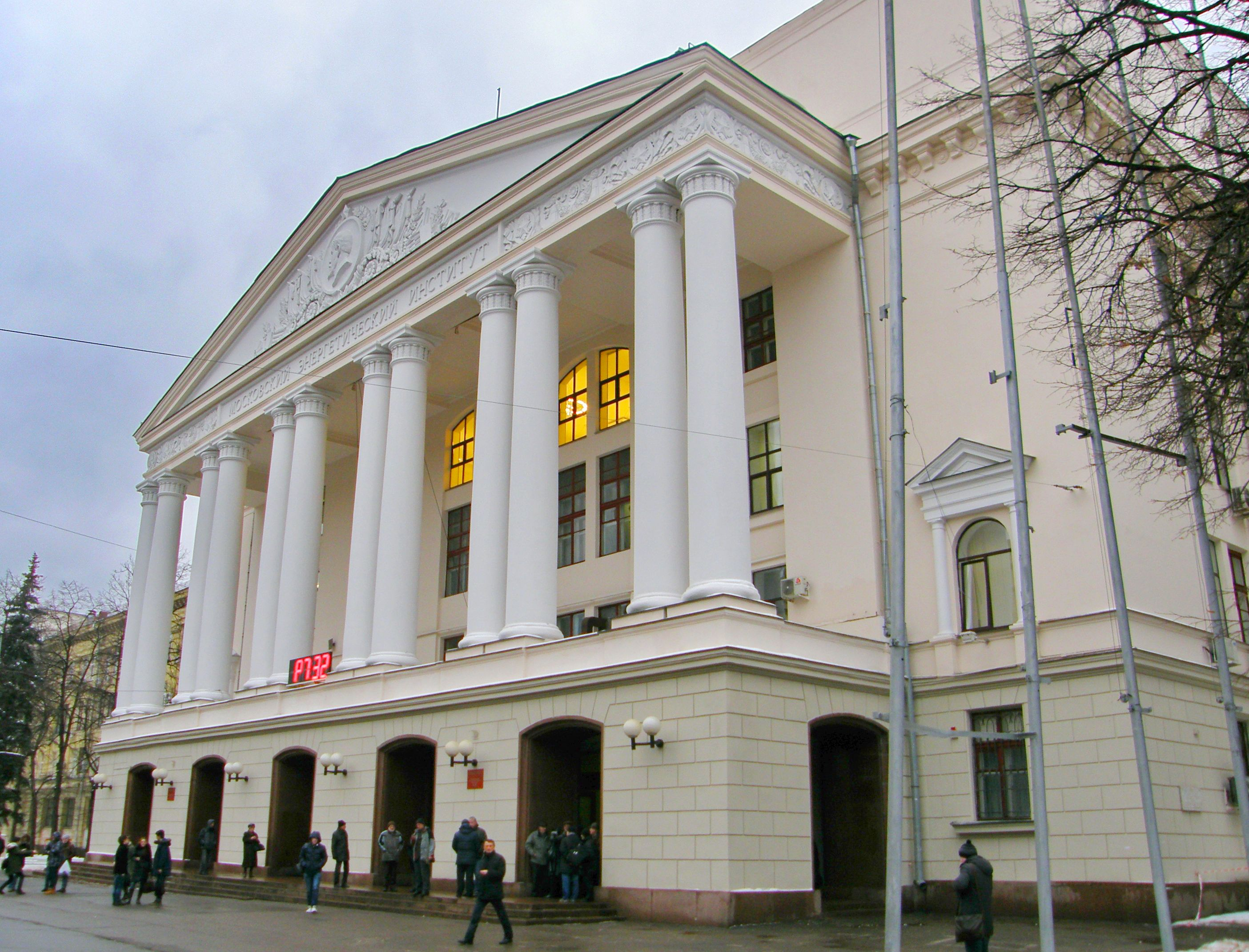 MEI TU Moskow